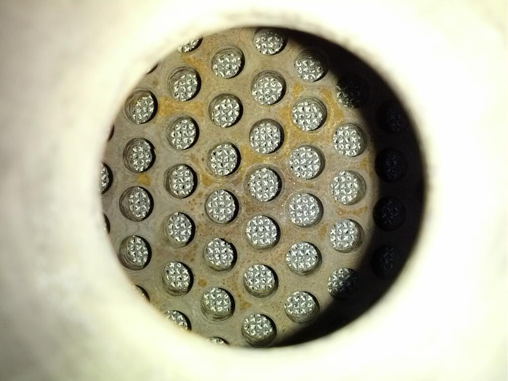 The silver screens behind the plate produce thrust by acting as catalysts that cause hydrogen peroxide to decompose violently.